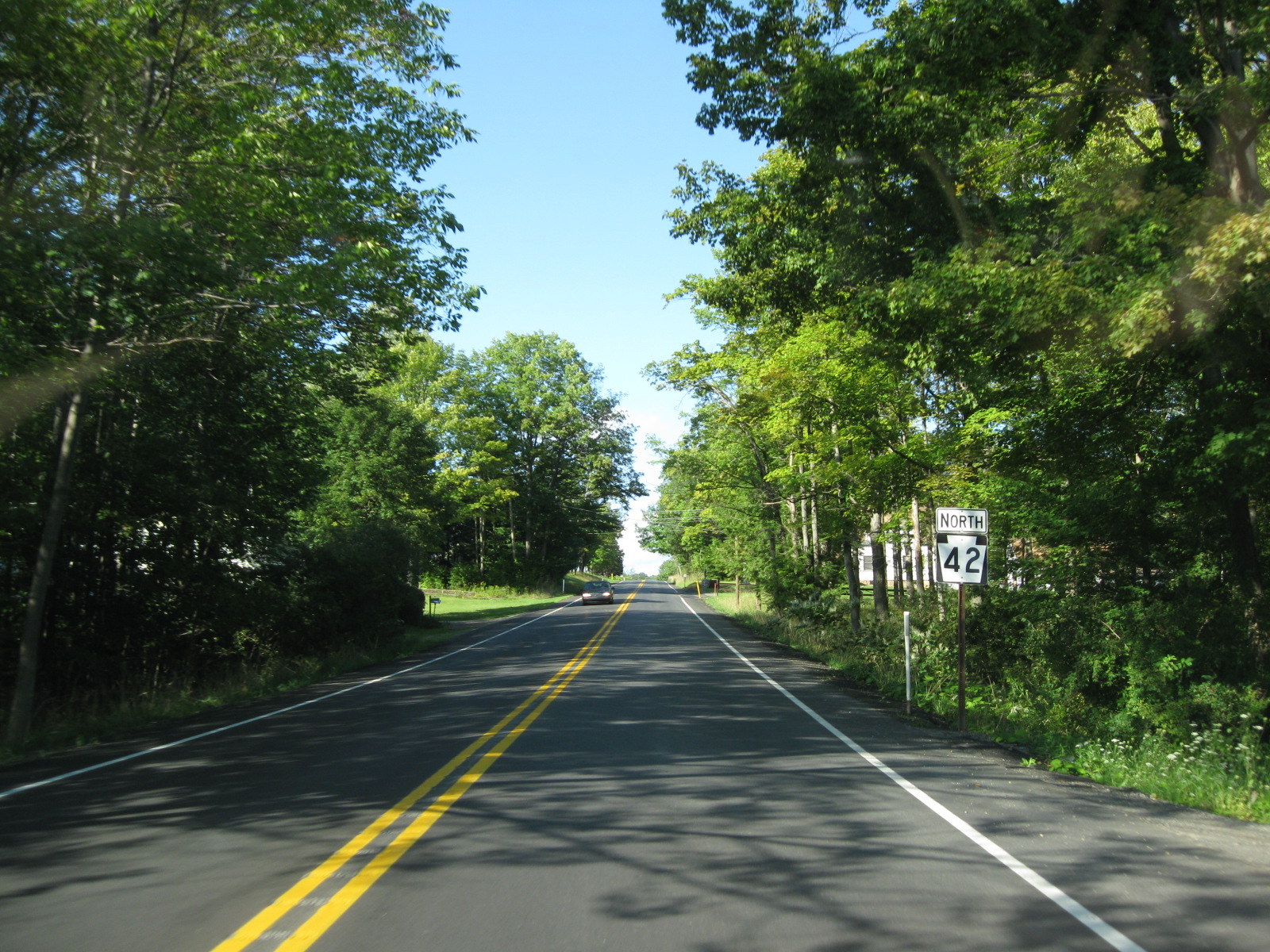 A view of Pennsylvania State Route 42 heading through forestry in Central Pennsylvania.